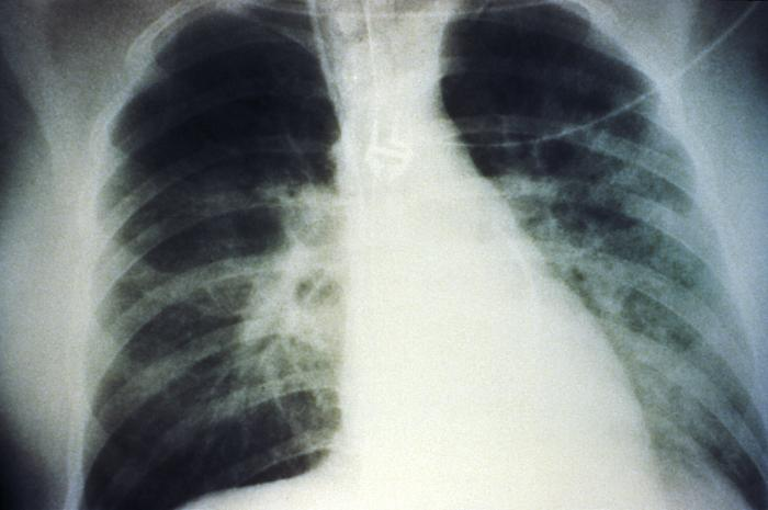 This AP chest x-ray reveals the mid-staged bilateral pulmonary effusion due to hantavirus pulmonary syndrome, or HPS. The radiological evolution of HPS begins with minimal changes of interstitial pulmonary edema, progressing to alveolar edema with severe bilateral involvement. Pleural effusions are common and are often large enough to be evident radiographically.